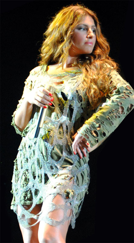 Elena Paparizou performing on the launch of the Fisika Mazi tour on 29 June at Theatro Petras in Athens.